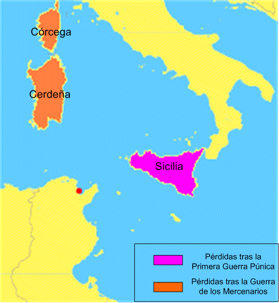 Pérdidas territoriales de Cartago tras la Primera Guerra Púnica y la Guerra de los Mercenarios / Carthage Territorial losses after the First Punic War and the Mercenary War